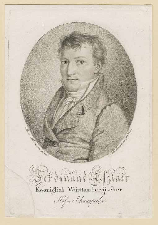 The austro-german actor Ferdinand Eßlair (1772-1840)